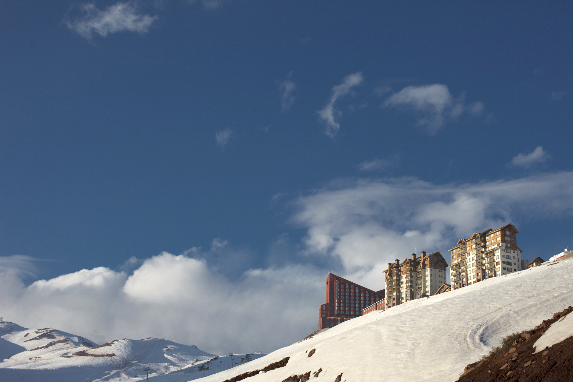 Valle Nevado, a ski resort, is about 50 kilometers from Santiago de Chile.